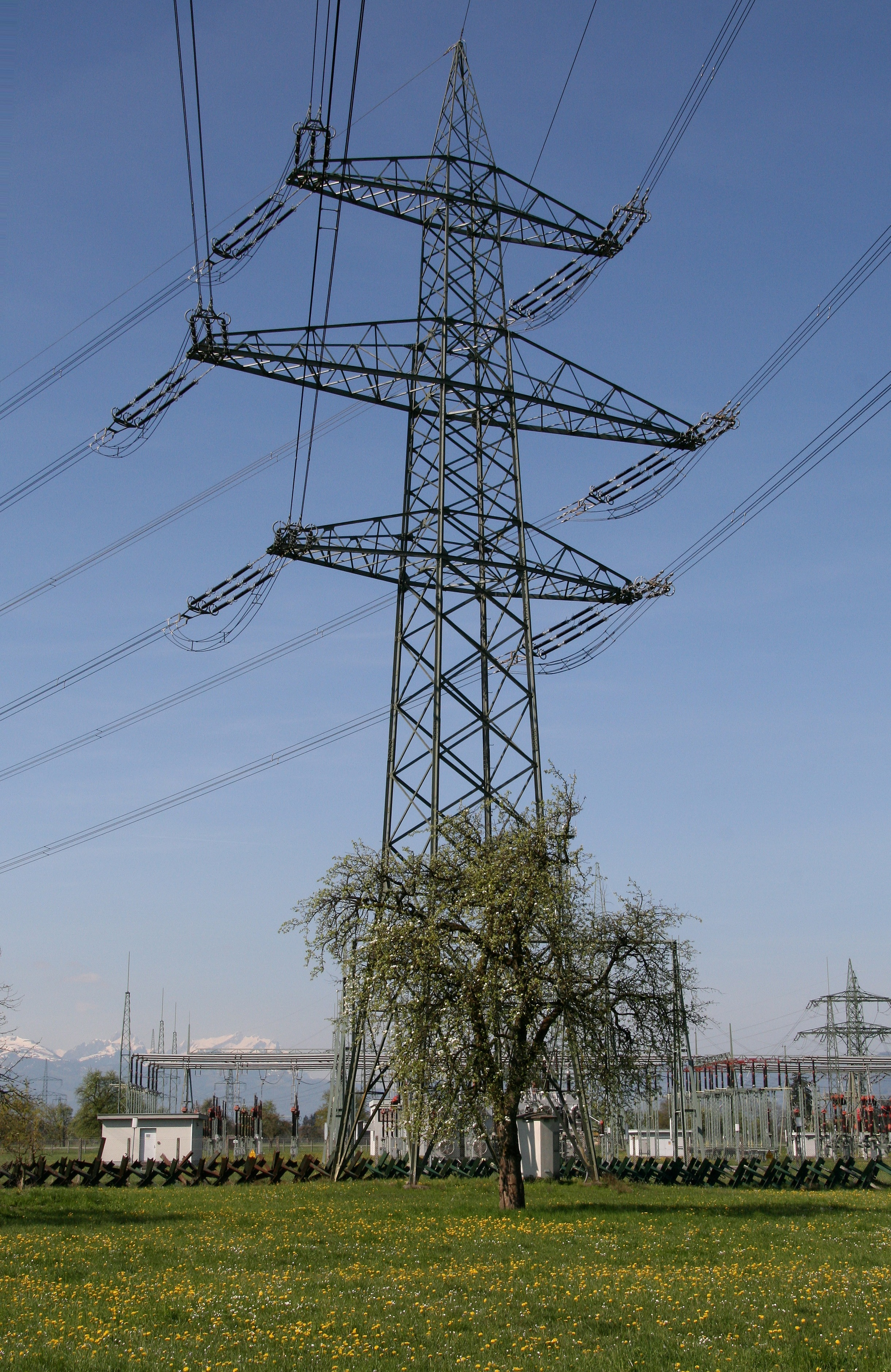 Power line pylon in Dornbirn / Vorarlberg / Austria / EU.